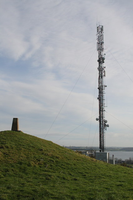 Communication mast. Communications mast and summit trig point on Frewin Hill, overlooking Lough Owel.